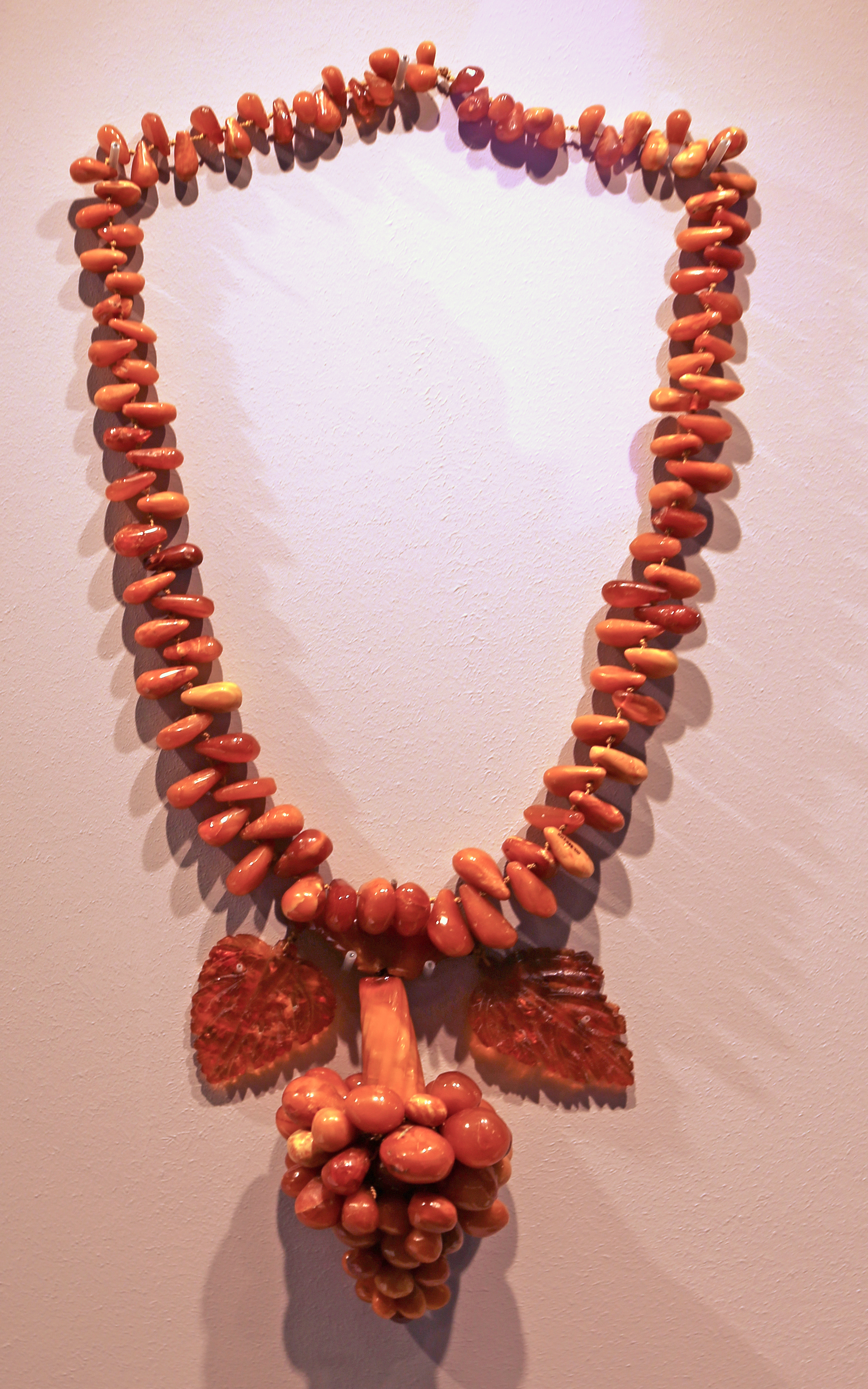 Roman amber jewellery 3th century located in Hambach Forest near Niederzier